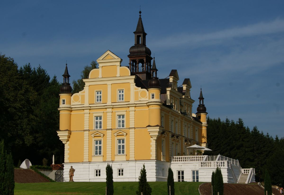 Château Tannbach, near Gutau, Upper Austria